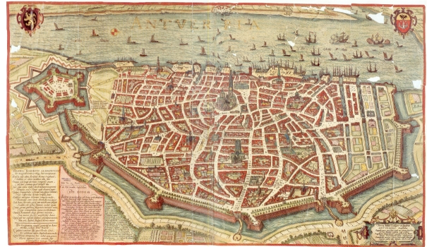 Map of Antwerp around 1598